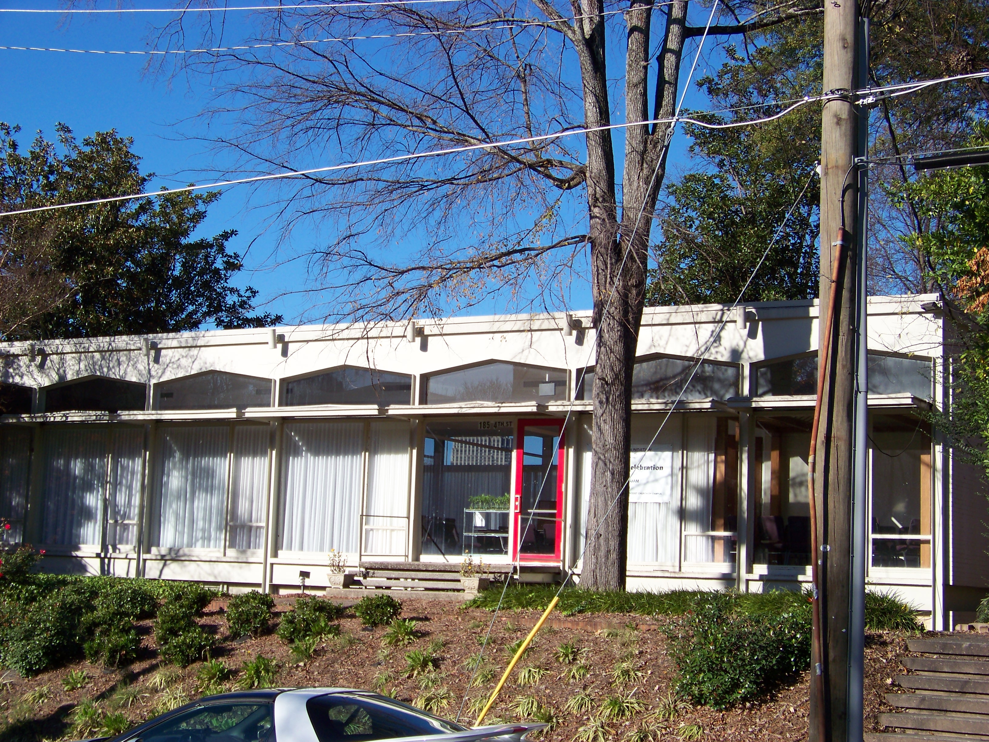 Wesley Foundation at Georgia Tech